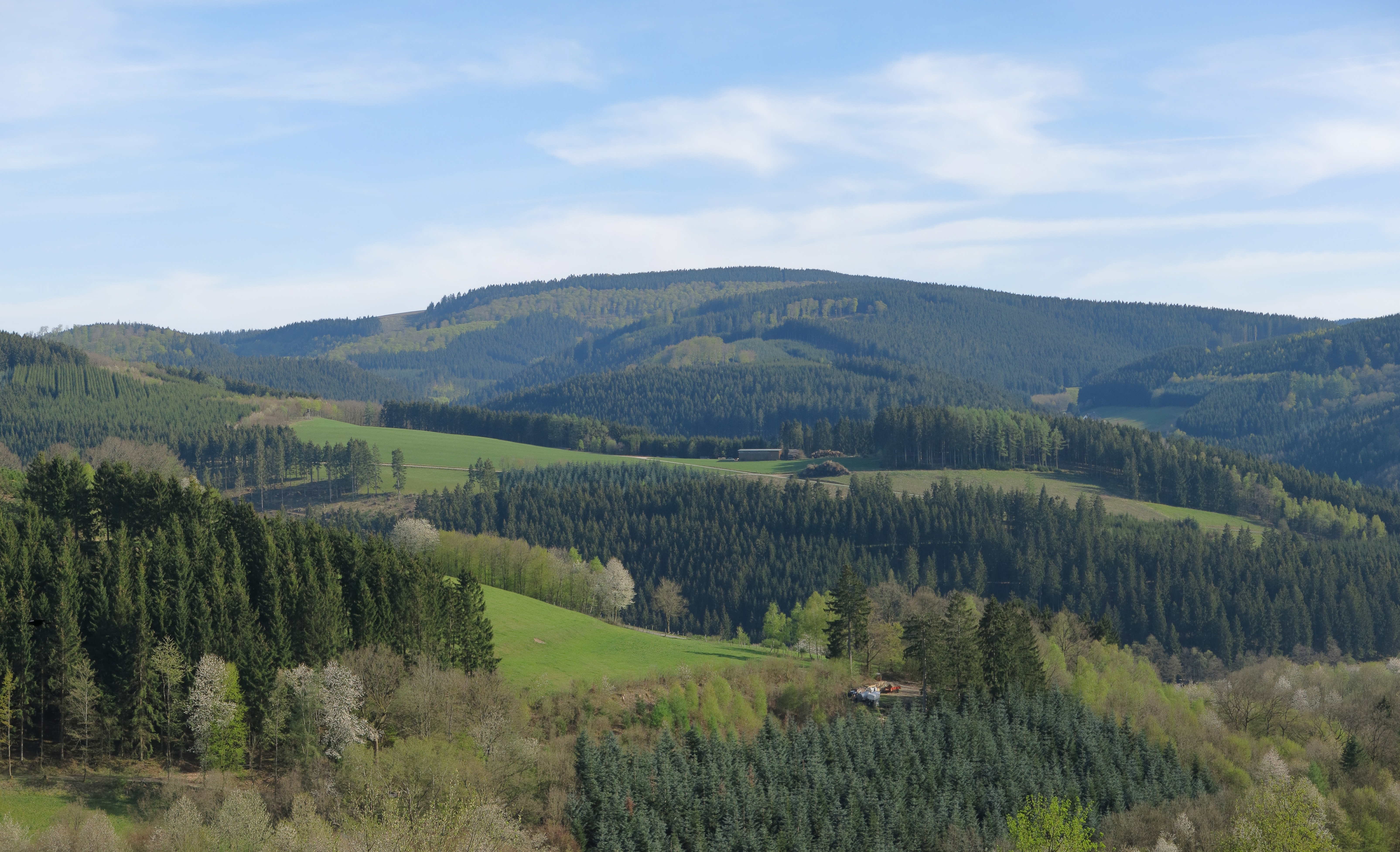 The Härdler in the Rothaar Mountains seen from north